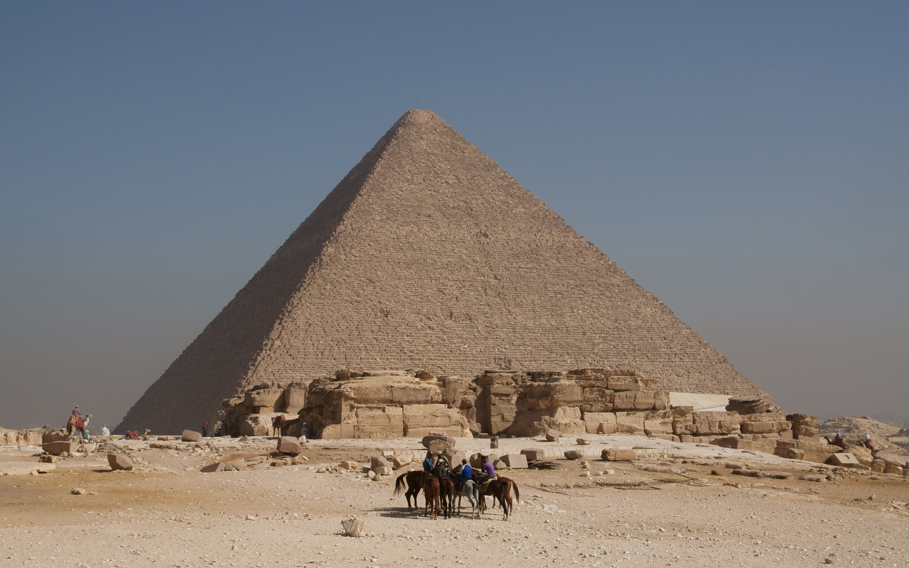 Great Pyramid of Giza.